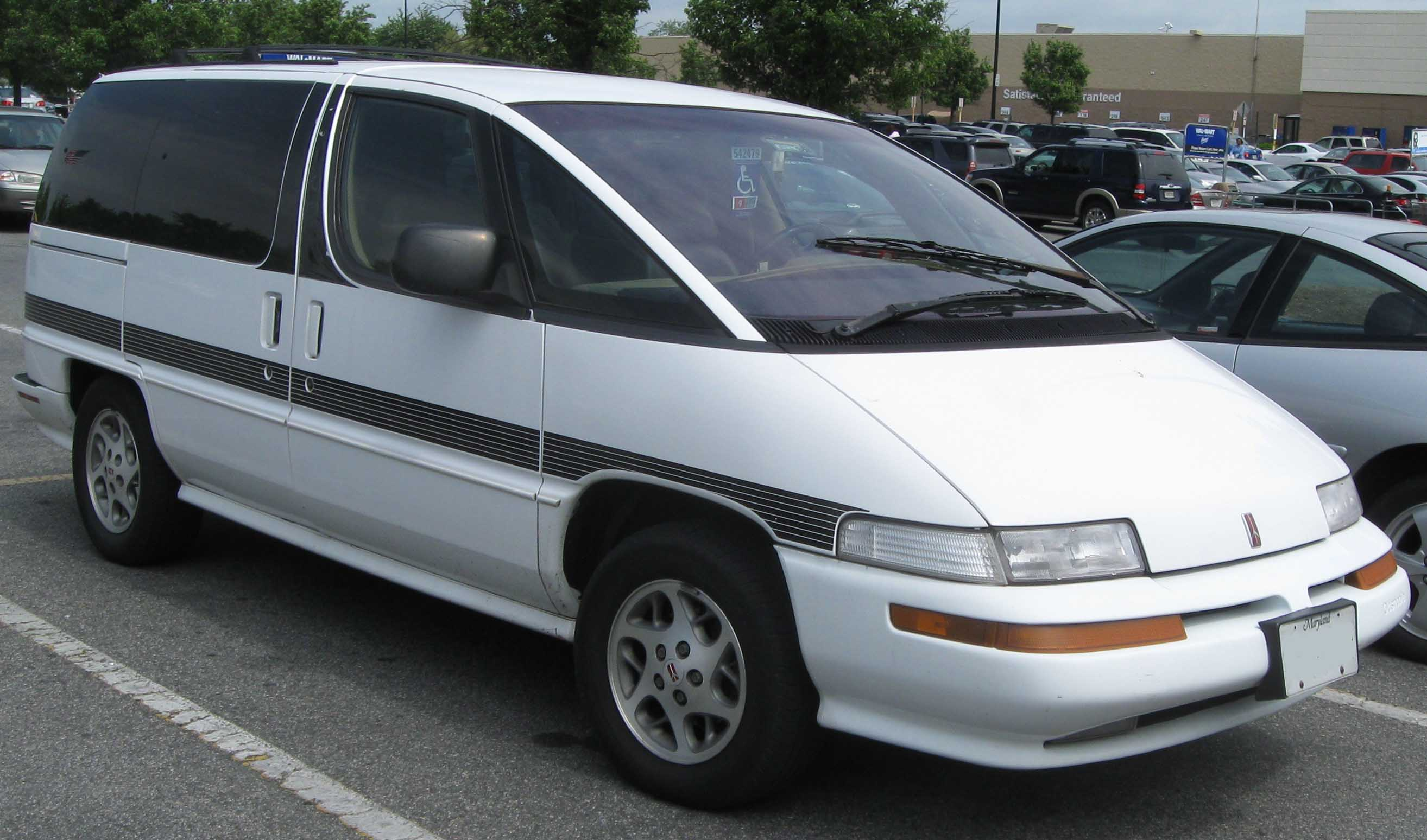 1993-1996 Oldsmobile Silhouette photographed in Waldorf, Maryland, USA.